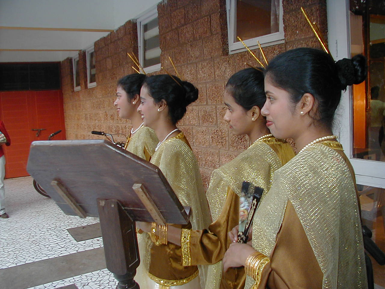 The mando festival at the Kala Academy, with performers decked up for the event. Goa. Photo by Frederick Noronha. +91-9822122436